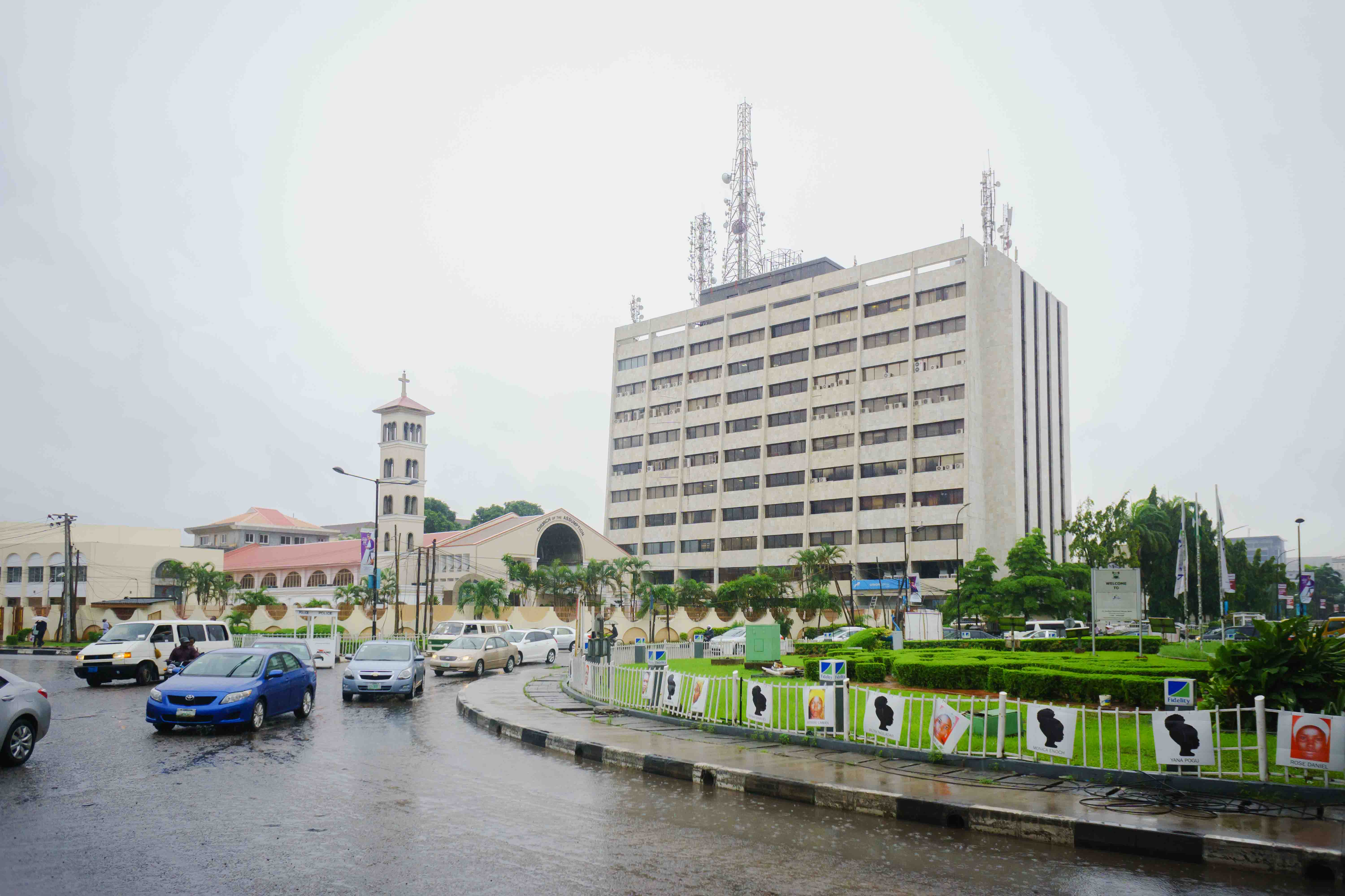 Notable Landmarks and busstation in lagos state